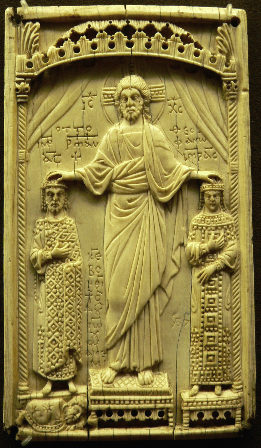 Crowning of Emperor Otto II and Theophano, book cover. Ivory, German Empire, Byzantine origin (?), 982-983.